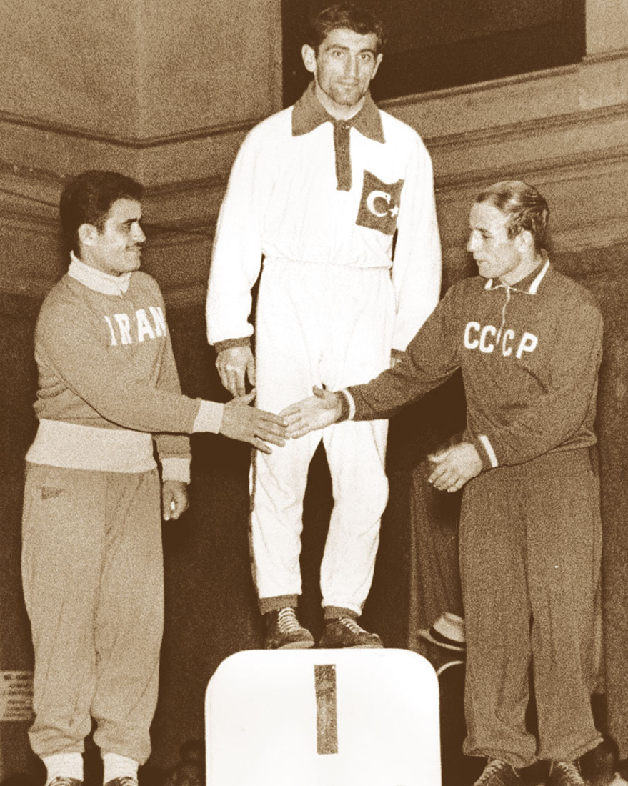 1956 Olympics, 57 kg freestyle wrestling podium